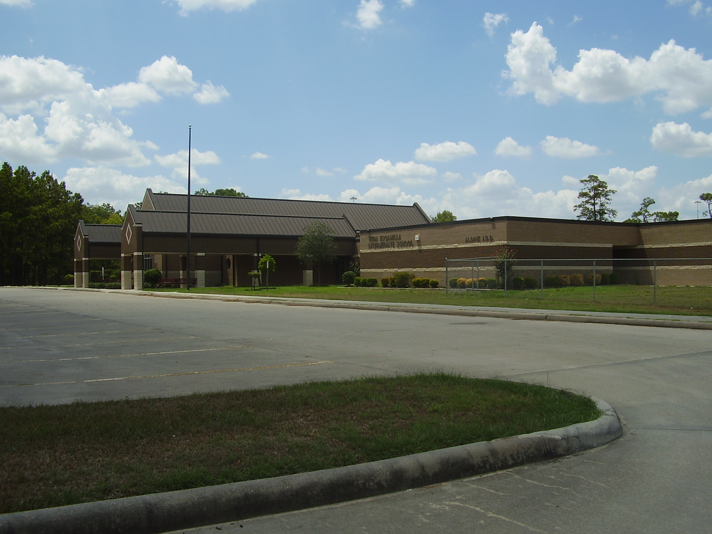 Vera Escamilla Intermediate School